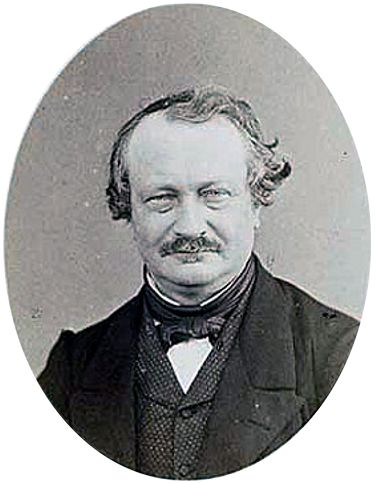 Dr. Th.J. Stieltjes